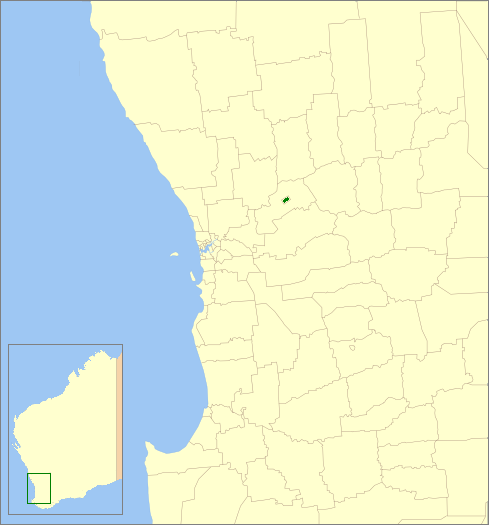 Description=Location of the Local Government Area in Western Australia